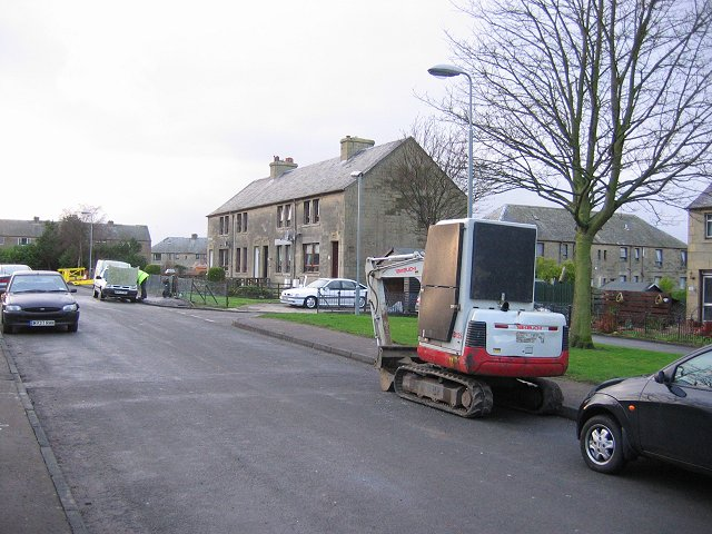 Polbeth